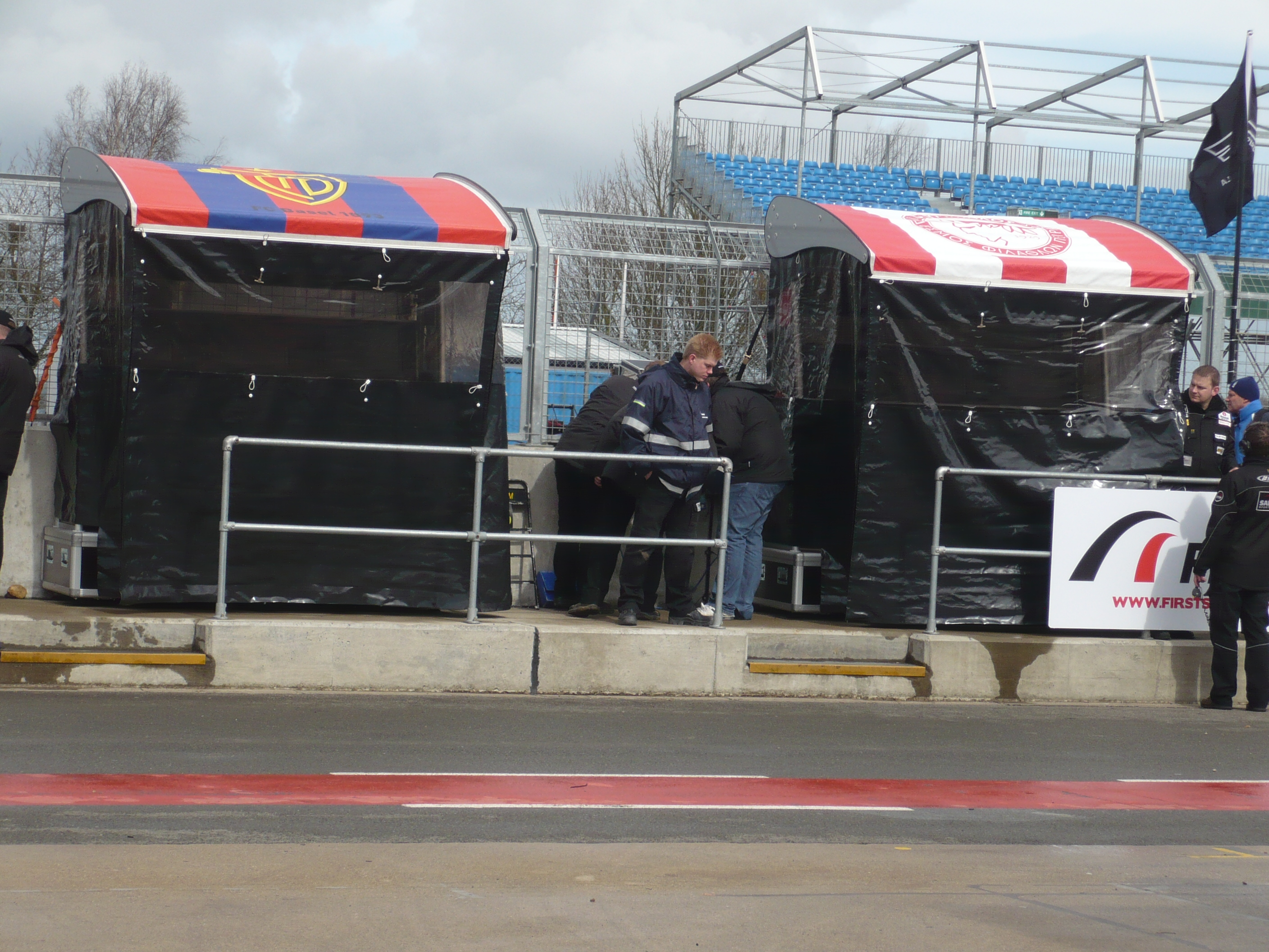 The GU-Racing International (Basel & Olympiacos) pit wall. Photo taken by me at Silverstone Circuit in 2010.